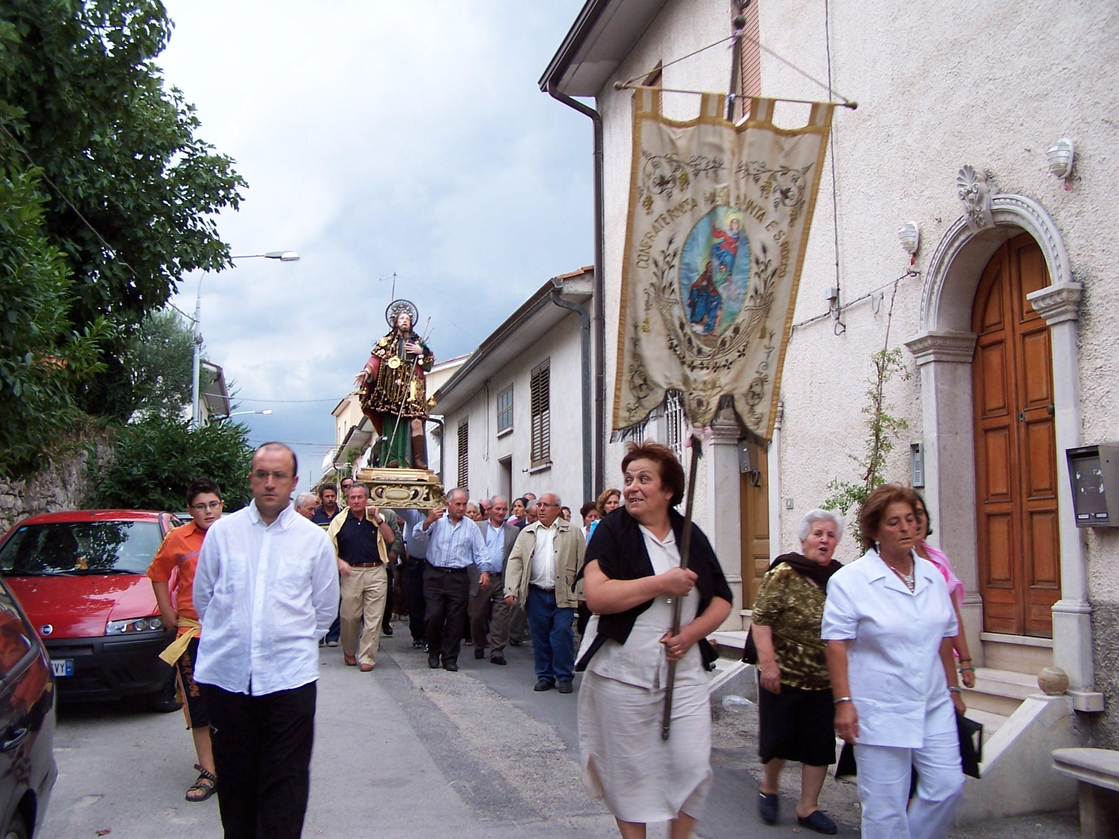 This picture represents the procession devoted to Saint Rocco. Villamaina (AV) - Italy Author: Roberto Petruzzo - 2005